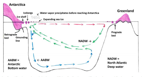 Schematic of stratification and precipitation amplifying feedbacks. Stratification: increased freshwater flux reduces surface water density, thus reducing AABW formation, trapping NADW heat, and increasing ice shelf melt. Precipitation: increased freshwater flux cools ocean mixed layer, increases sea ice area, causing precipitation to fall before it reaches Antarctica, reducing ice sheet growth and increasing ocean surface freshening. Ice in West Antarctica and the Wilkes Basin, East Antarctica, is most vulnerable because of the instability of retrograde beds.